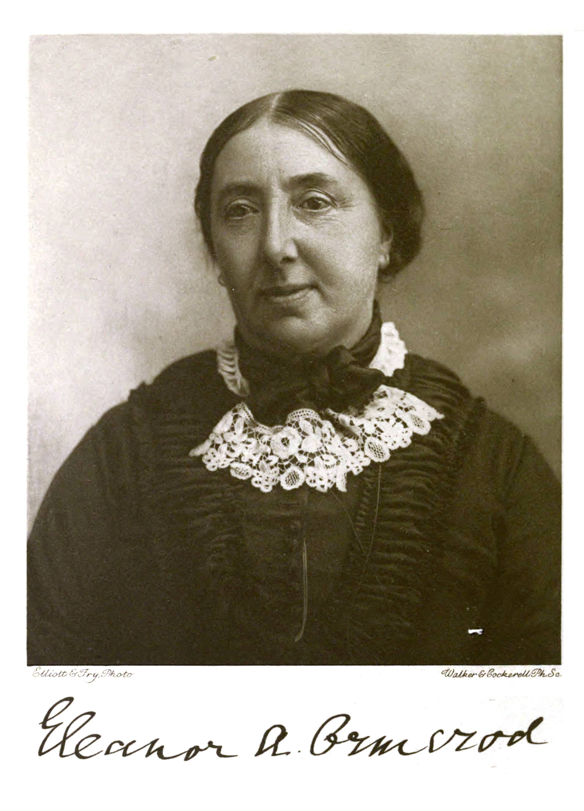 Eleanor Anne Ormerod (1828-1901). entomologist.